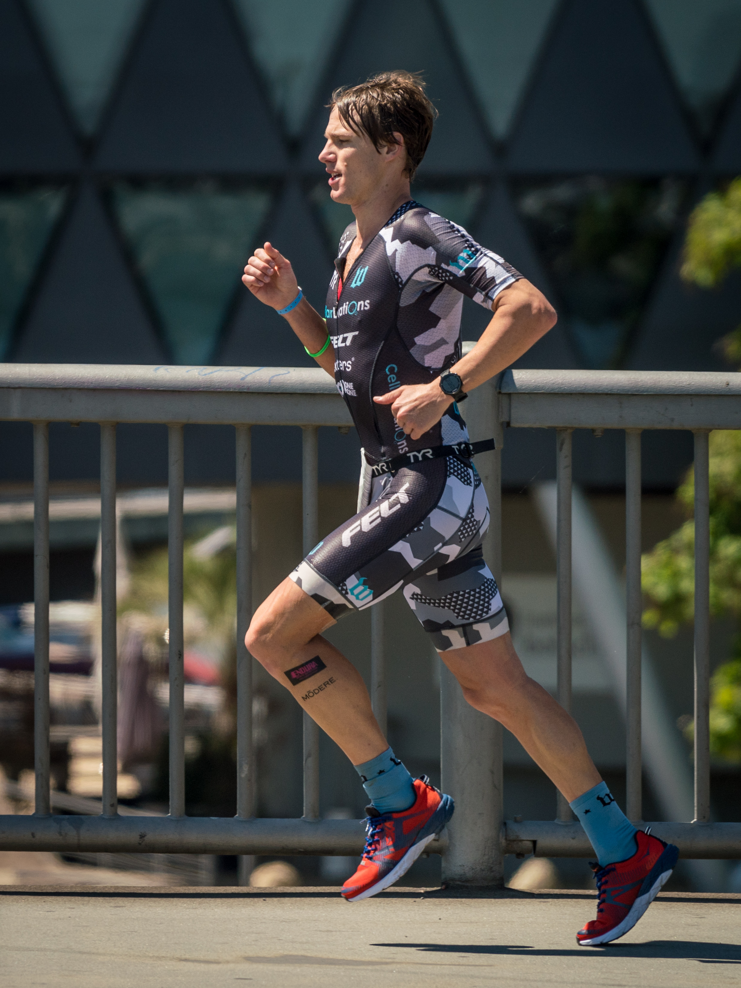 Fifth male Josh Amberger at the 2018 Ironman European Championship in Frankfurt am Main (Germany).